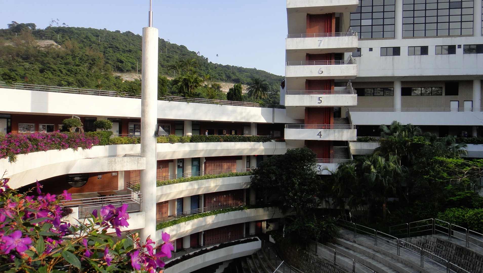 Inside of the Hong Kong International School